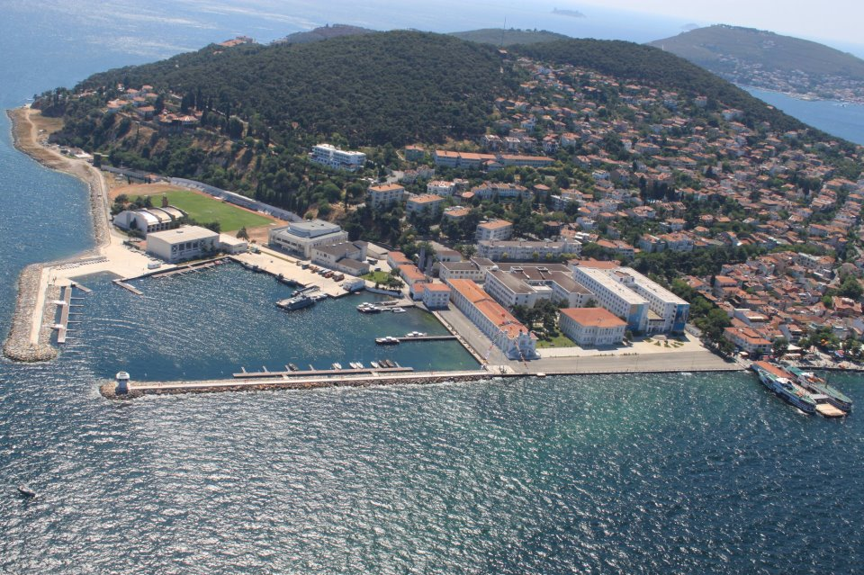 Aerial shot of Heybeliada that covers the entirety of the Naval Highschool (Deniz Lisesi) facilities on the foreground.